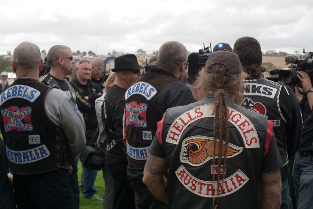 Gawler, South Australia. Gypsy Jokers Poker Run, Protesting the Right to Associate that has been taken away by the state govt.